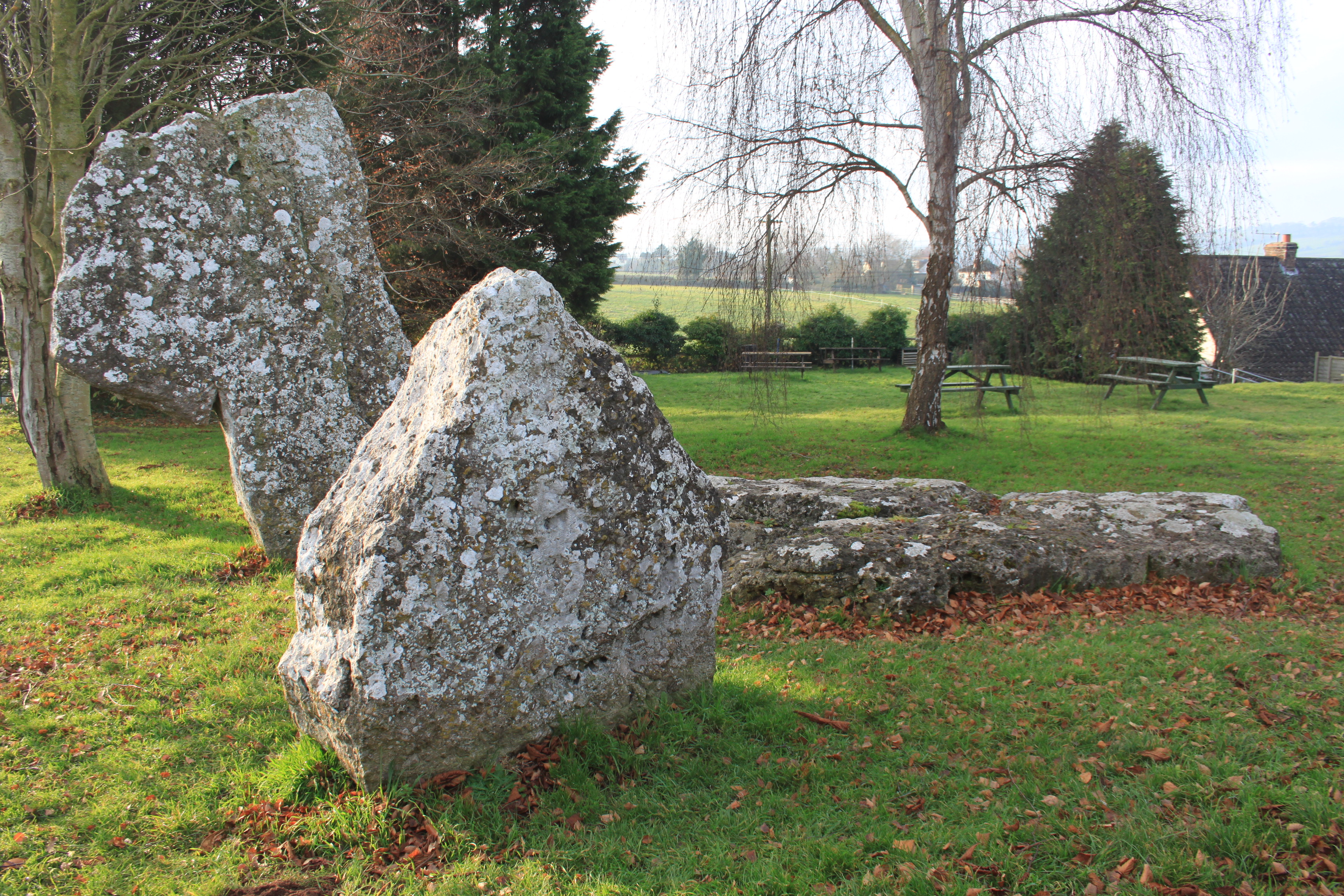 Megalithic stones known as The Cove in the garden of the Druids Arms public house, close to the stone circles of Stanton Drew, Somerset, England.